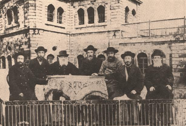 Teachers of the Etz Chaim Yeshiva based in the Hurva complex in the Old City of Jerusalem.Part of a panoramic series of the whole school body.Identified are Rav Yona Rom D'Beerz second from the right, Rav Zvi Pesach Frank to his right, and Rav Eliyahu ( Ela )Rom second from left